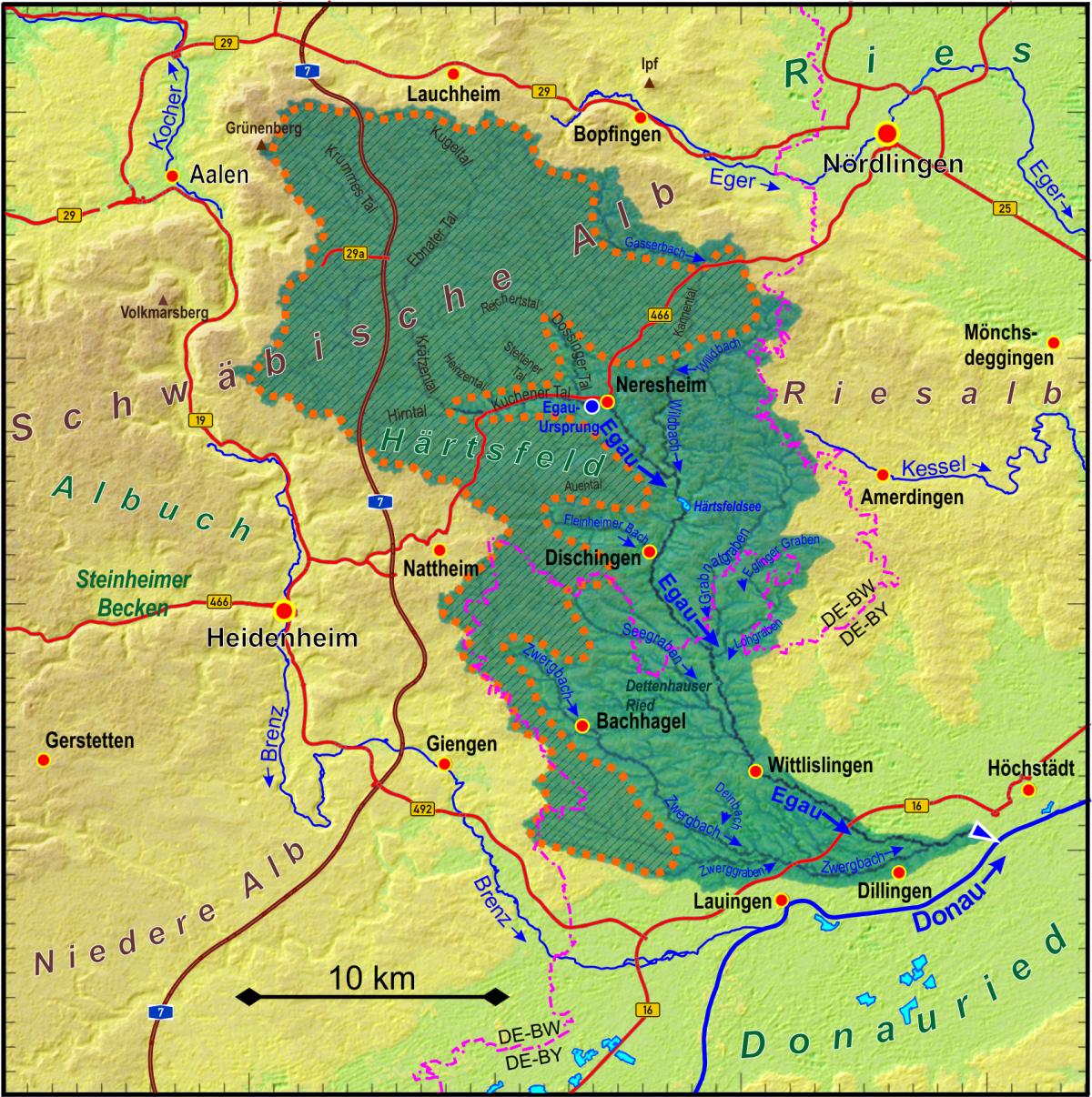 Catchment area of the Egau river. Within the hatched area almost no surface runoffs exist. Major dry valley are labeled.